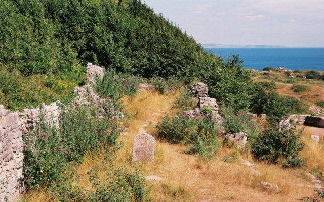 Part of the ruin of St Andrew's parish church, Rufus Castle, Portland, Dorset